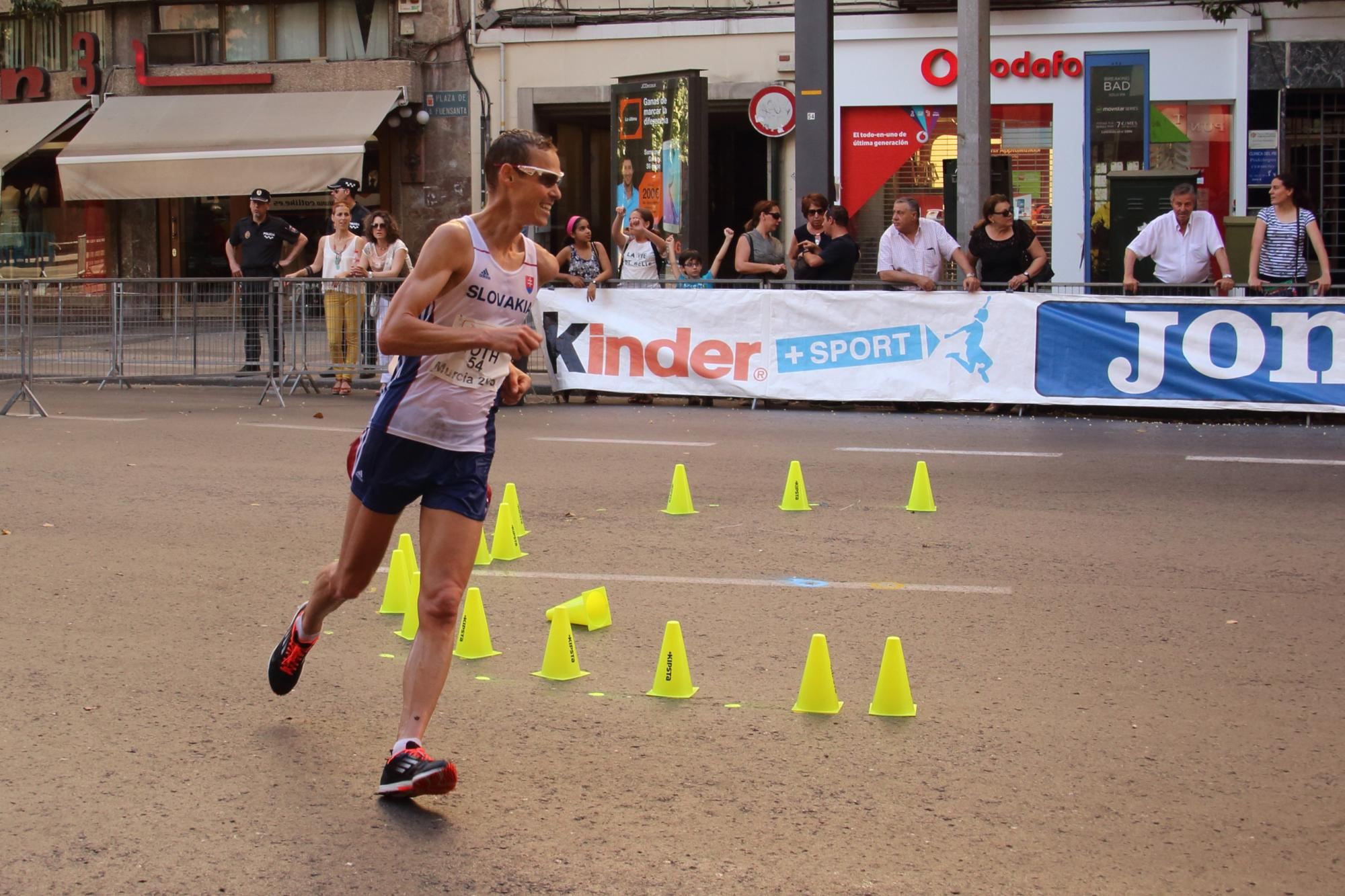 54-Matej Tóth (SVK) in the European Cup Race Walking 2015 (Murcia, Spain).